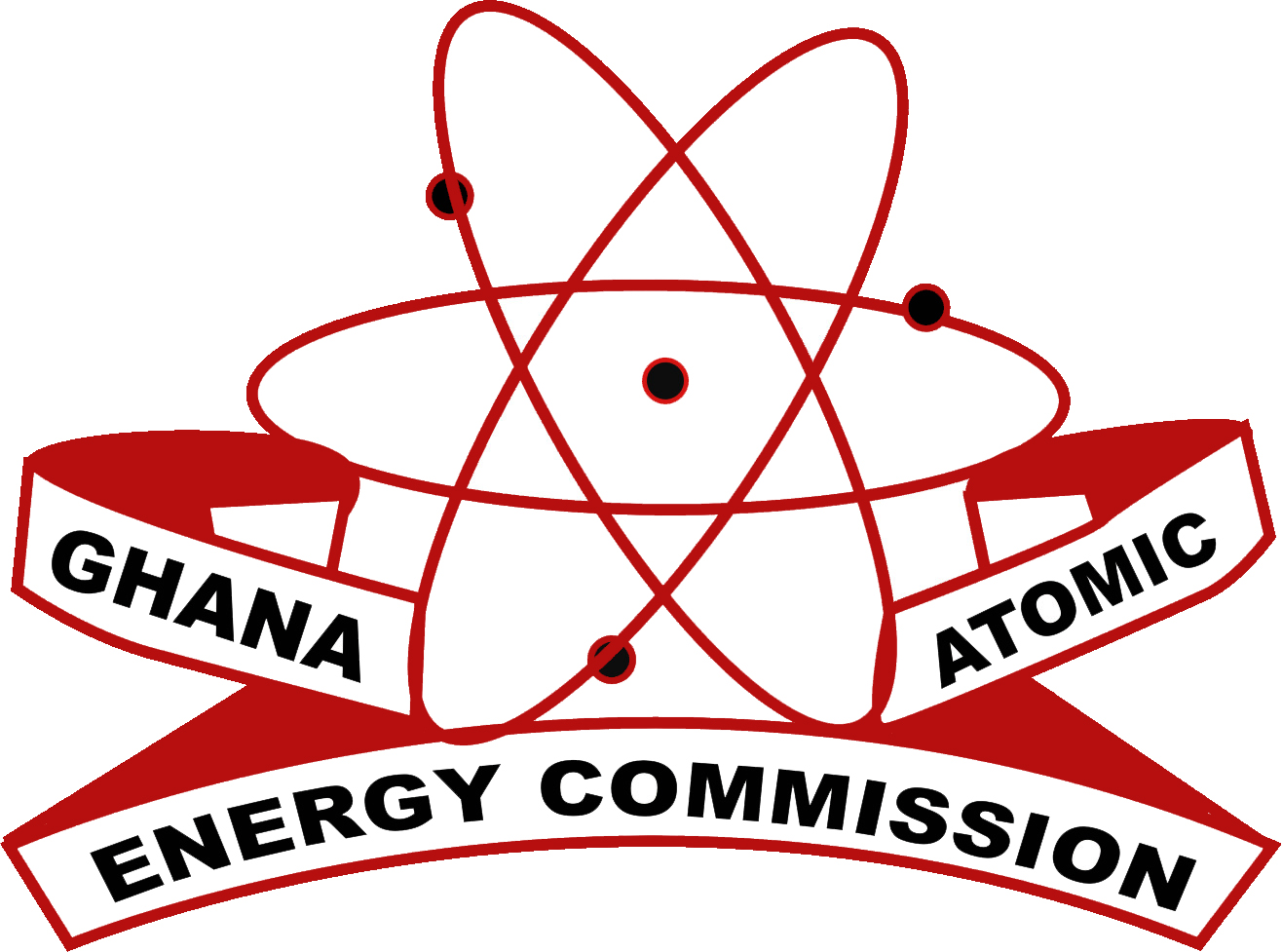 Ghana Atomic Energy Commission (GAEC) logo.